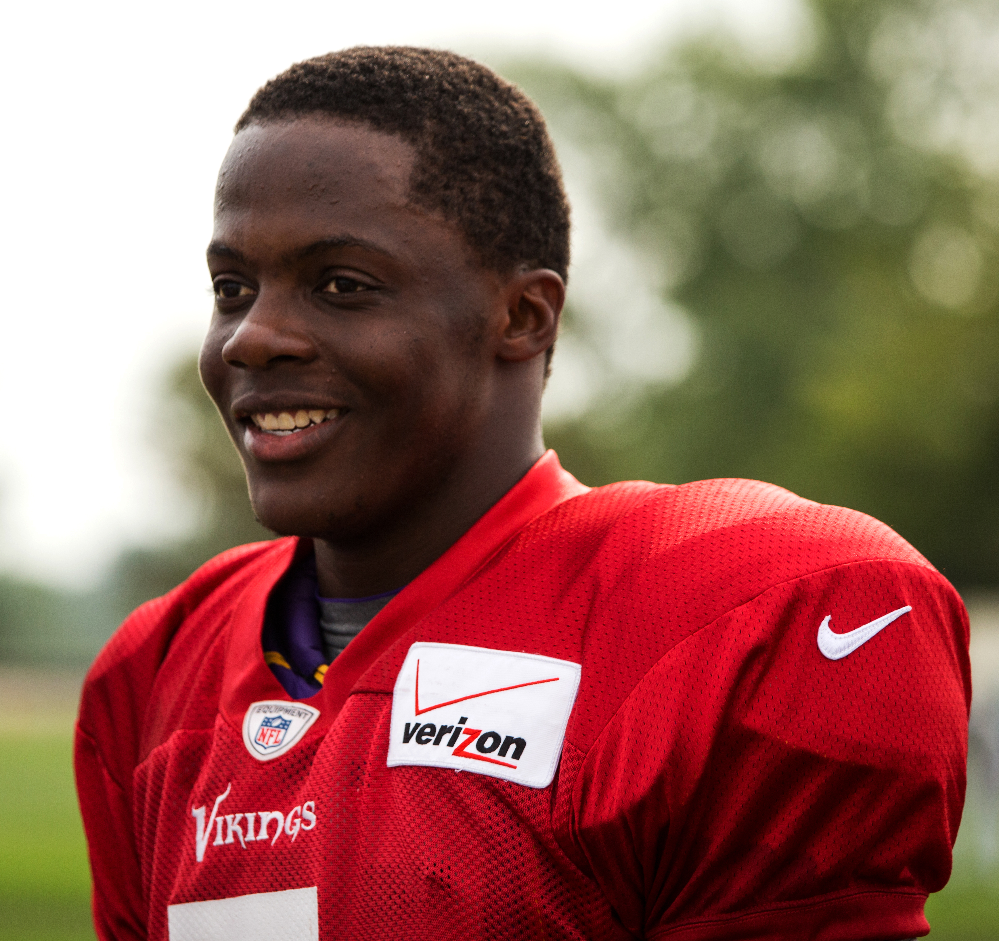 Minnesota Vikings quarterback Teddy Bridgewater during 2014 training camp